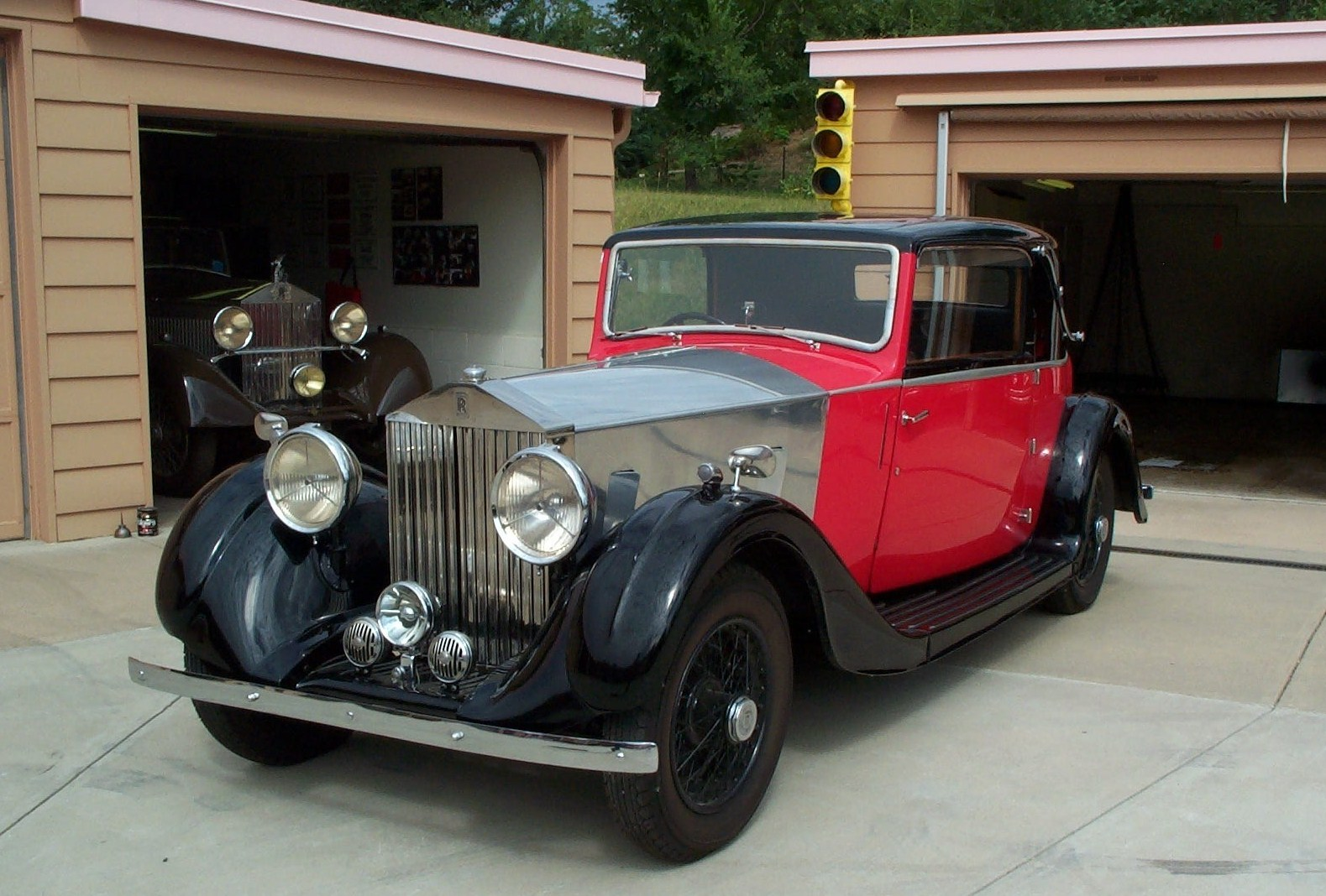 1936 Rolls-Royce 20/25 (#GTK16) Croall fixed head coupé.